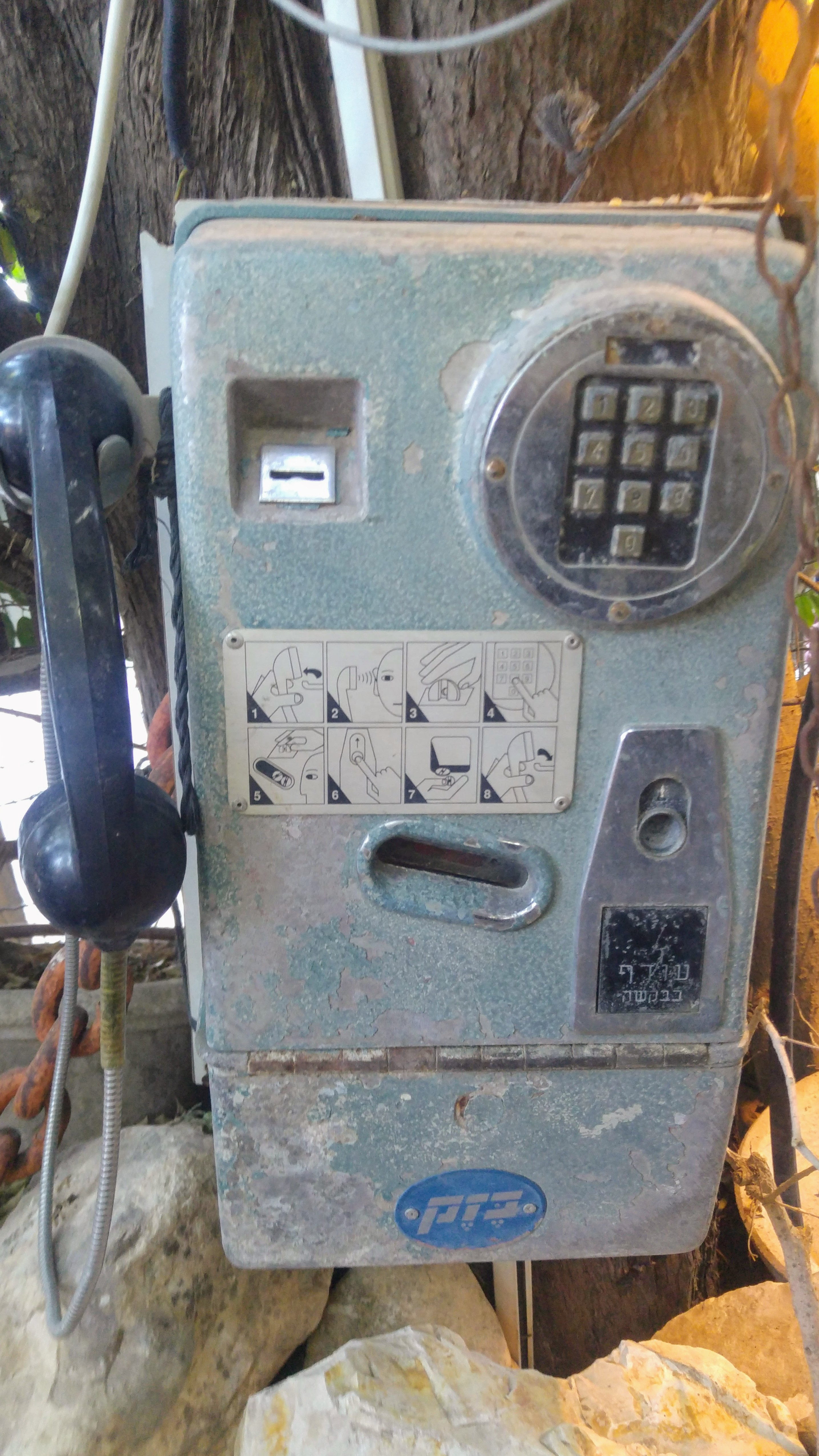 Old Israeli Pay Phone with buttons